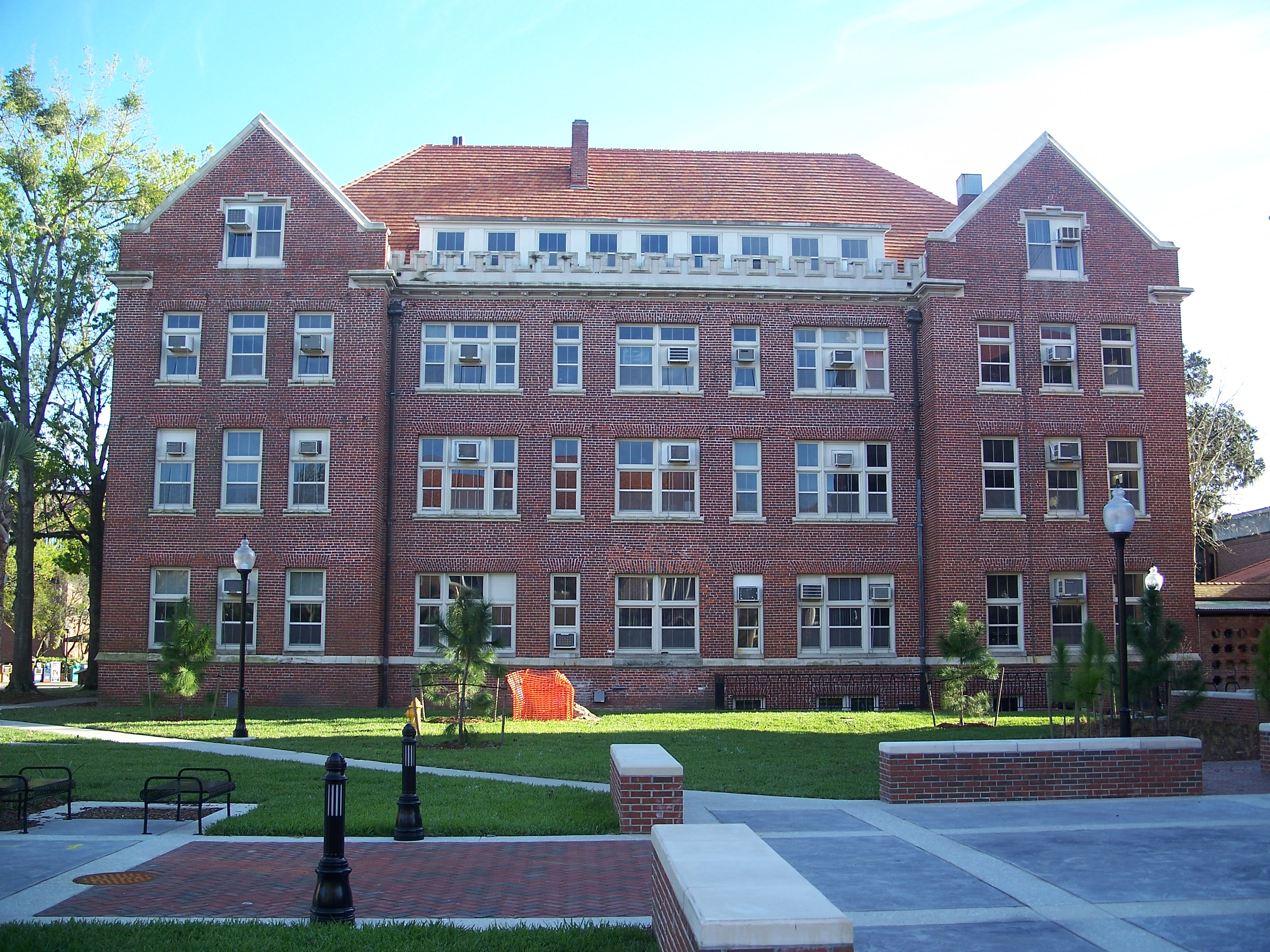 Newell Hall, part of the University of Florida Campus Historic District